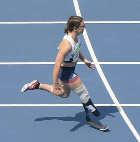 Sophie Kamlish GBR running a world record at Rio de Janeiro - Semifinal 100m T44